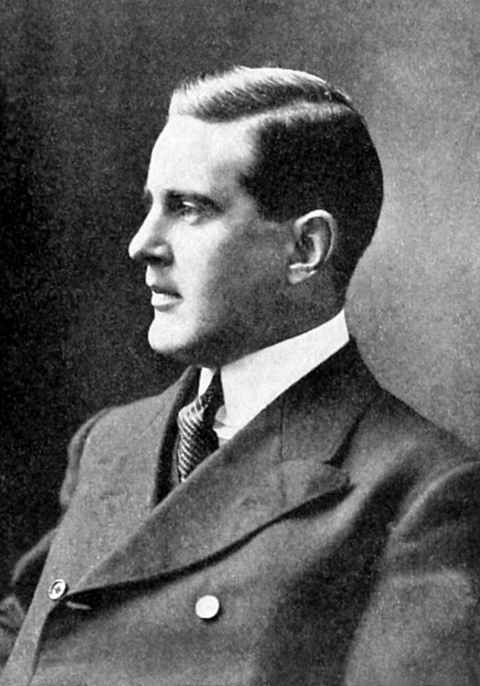 Photograph of writer Arthur Goodrich Caption reads as follows:ARTHUR GOODRICHAuthor of The Balance of Power, whose article, "A Day with a Devonshire Farmer," appears in this issue of The Outing Magazine.